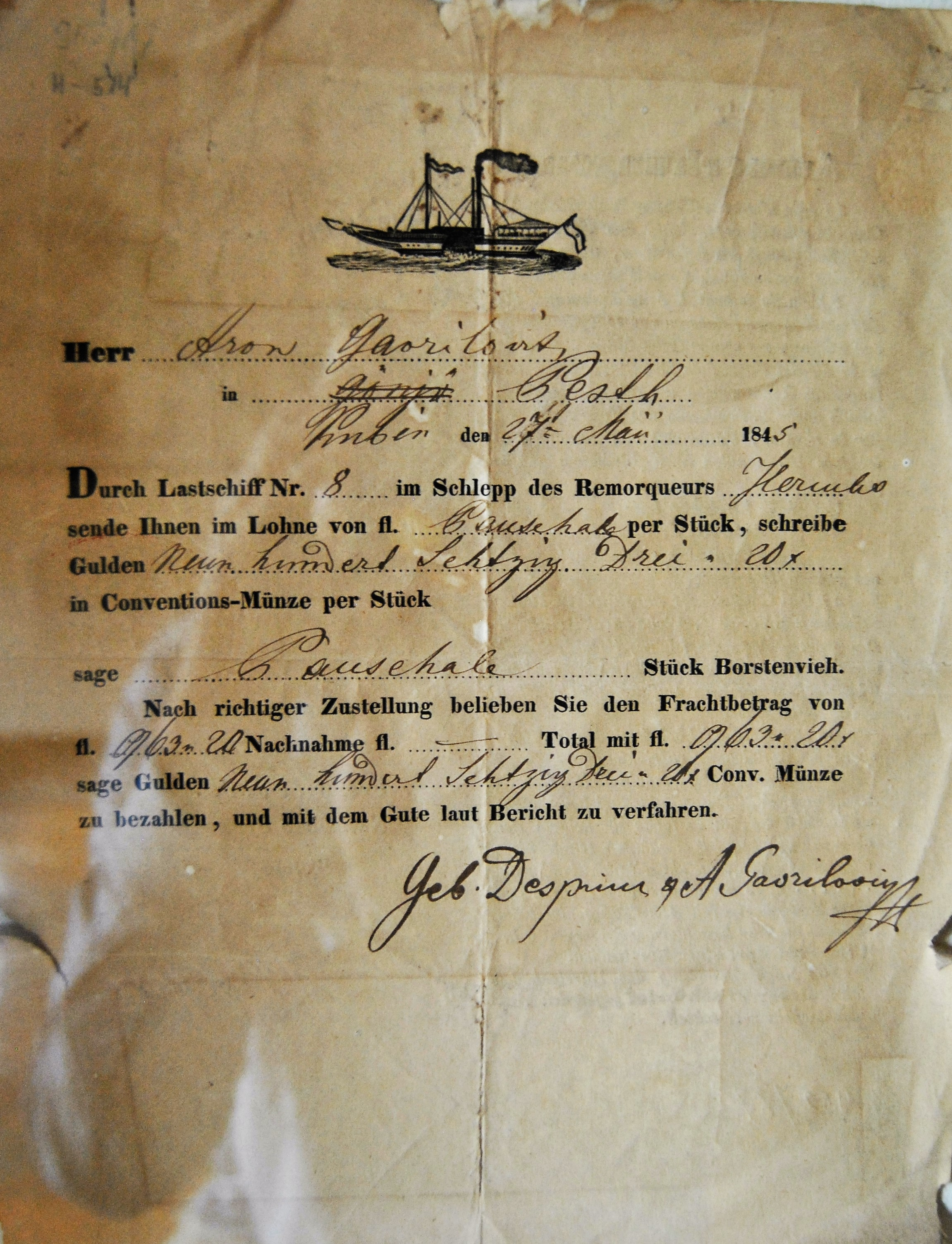 Information about sailing on the Danube near Smederevo from 1845, Museum in Smederevo